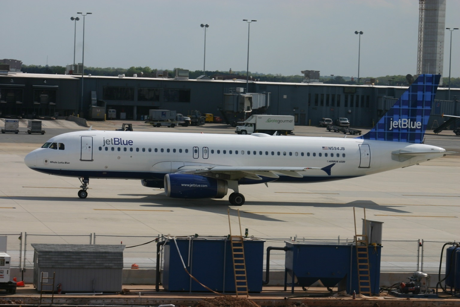 At Washington Dulles International